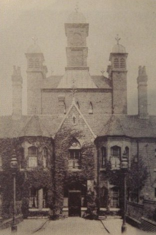 King's Norton Union Workhouse in Selly Oak, showing the entrance to the main accommodation block with its original decorative cupolas. Designed by the architect Edward Holmes, it was built in 1872 to replace the old King's Norton Parish Workhouse (Original postcard published by "Foster's Series", 17 Bennett's Hill, Birmingham. Images of this postcard have appeared in the following publications: Dowling, Geoff, et al., Selly Oak Past and Present: A Photographic Survey of a Birmingham Suburb (Department of Geography, University of Birmingham, 1987), p. 19; Butler, Joanne, et al., Selly Oak and Selly Park, Images of England Series (Tempus Publishing Ltd, Stroud, 2005), p. 88)